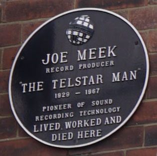 thanks to @LondonStone for the photo